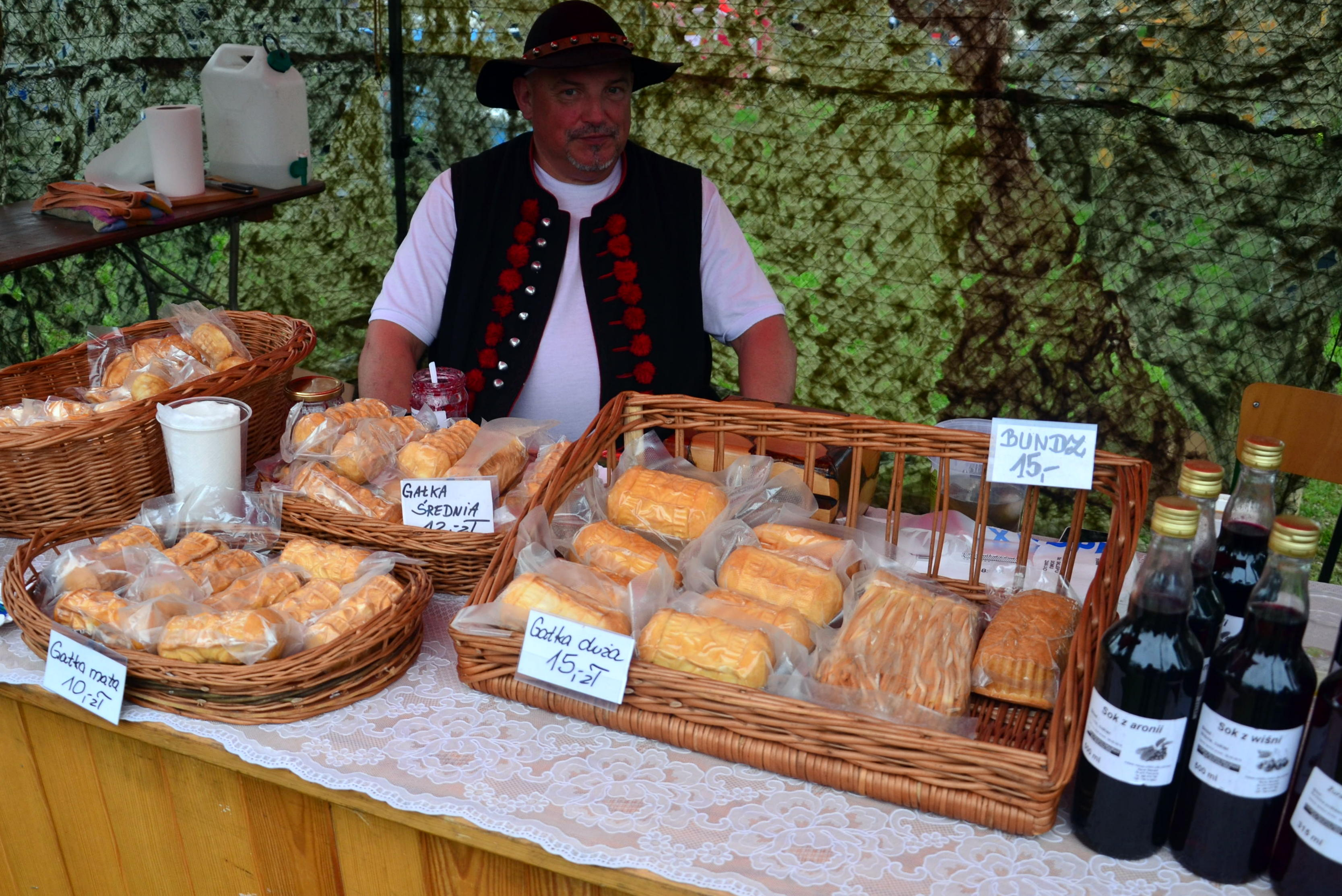 Beskidische Käse